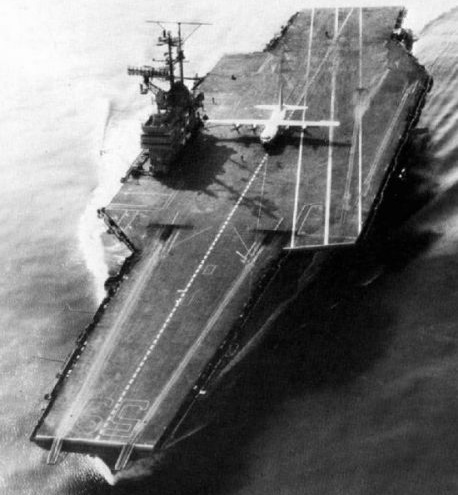 The U.S. Navy Lockheed KC-130F Hercules (BuNo 149798) from Transport Squadron 1 (VR-1), loaned to the U.S. Naval Air Test Center aboard the aircraft carrier USS Forrestal (CVA-59) on 10 October 1963. Official description: "Forrestal made history in November 1963 when on the 8th, 21st and 22nd, LT James H. Flatley III and his crew members, LCDR [W. W.] 'Smokey' Stovall and Aviation Machinist's Mate (Jets) 1st Class Ed Brennan, made [29 touch-and-go landings and] 21 full-stop landings and takeoffs in a C-130F Hercules aboard the ship. The tests were conducted 500 miles [800 km] out in the North Atlantic off the coast of Massachusetts. In so doing, Forrestal and the C-130 set a record for the largest and heaviest airplane landing on a Navy aircraft carrier. The Navy was trying to determine if the big Hercules could serve as a 'Super-COD' — a 'Carrier On-board Delivery' aircraft. The problem was there was no aircraft which could provide resupply to a carrier in mid ocean. The Hercules was stable, reliable, and had a long cruising range and high payload." "The tests were more than successful. At 85,000 pounds [38,555.3 kg], the C-130F came to a complete stop within 267 feet [81.4 meters], and at the maximum load [121,000 pounds, 54,884.6 kg], the plane used only 745 feet [227.1 meters] for take-off [and 460 feet, 140.2 meters, for landing]. The Navy concluded that with the C-130 Hercules, it would be possible to lift 25,000 pounds [11,339.8 kg] of cargo 2,500 miles [4,022.5 km] and land it on a carrier. However, the idea was considered a bit too risky for routine COD operations. The C-2A Greyhound program was developed and the first of these planes became operational in 1965. For his effort, the Navy awarded LT Flatley the Distinguished Flying Cross." [1]